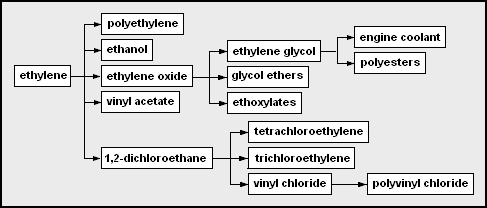 A diagram of the petrochemicals produced from ethylene.